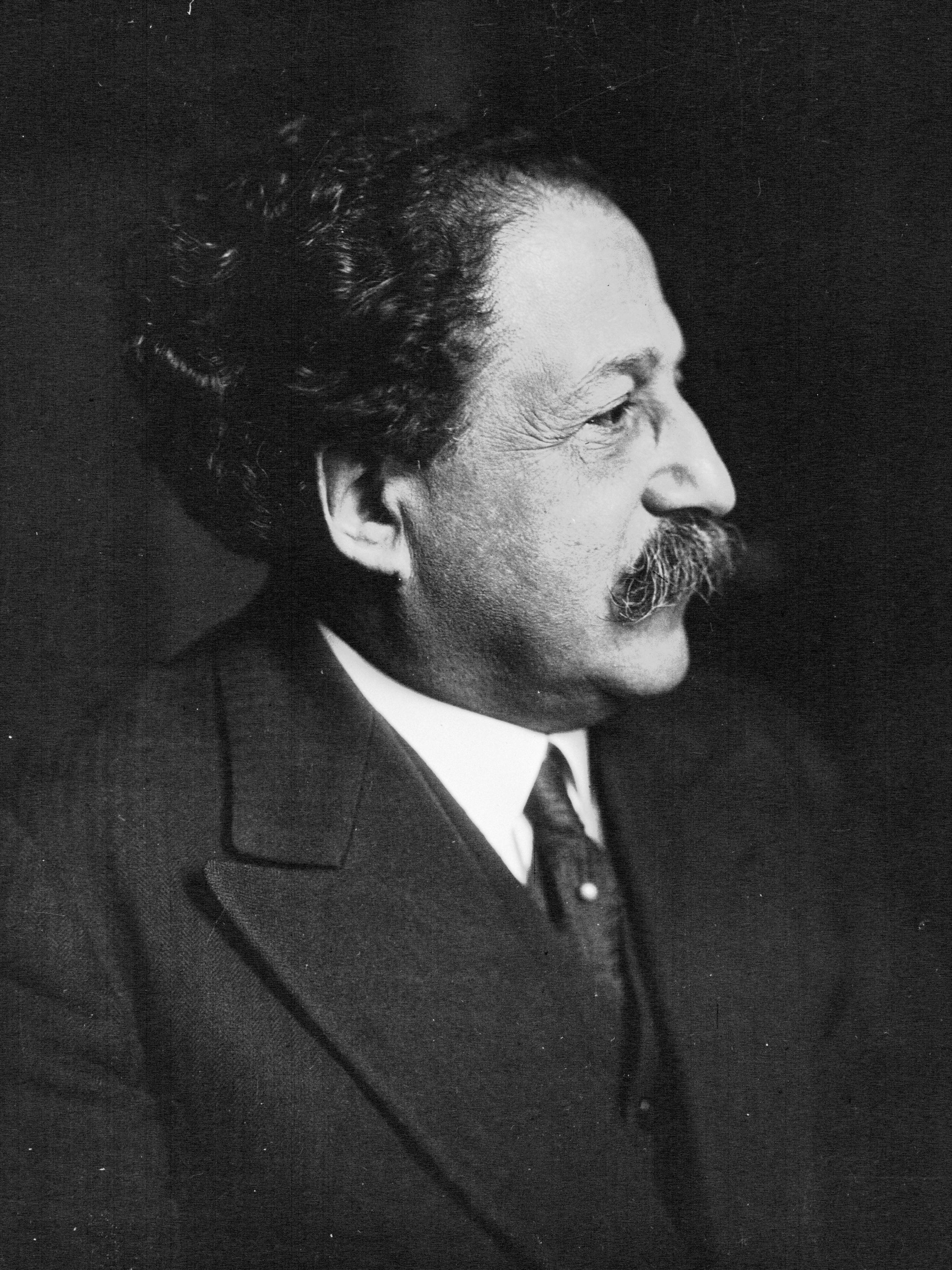 French-American conductor Pierre Monteux (1875-1964).